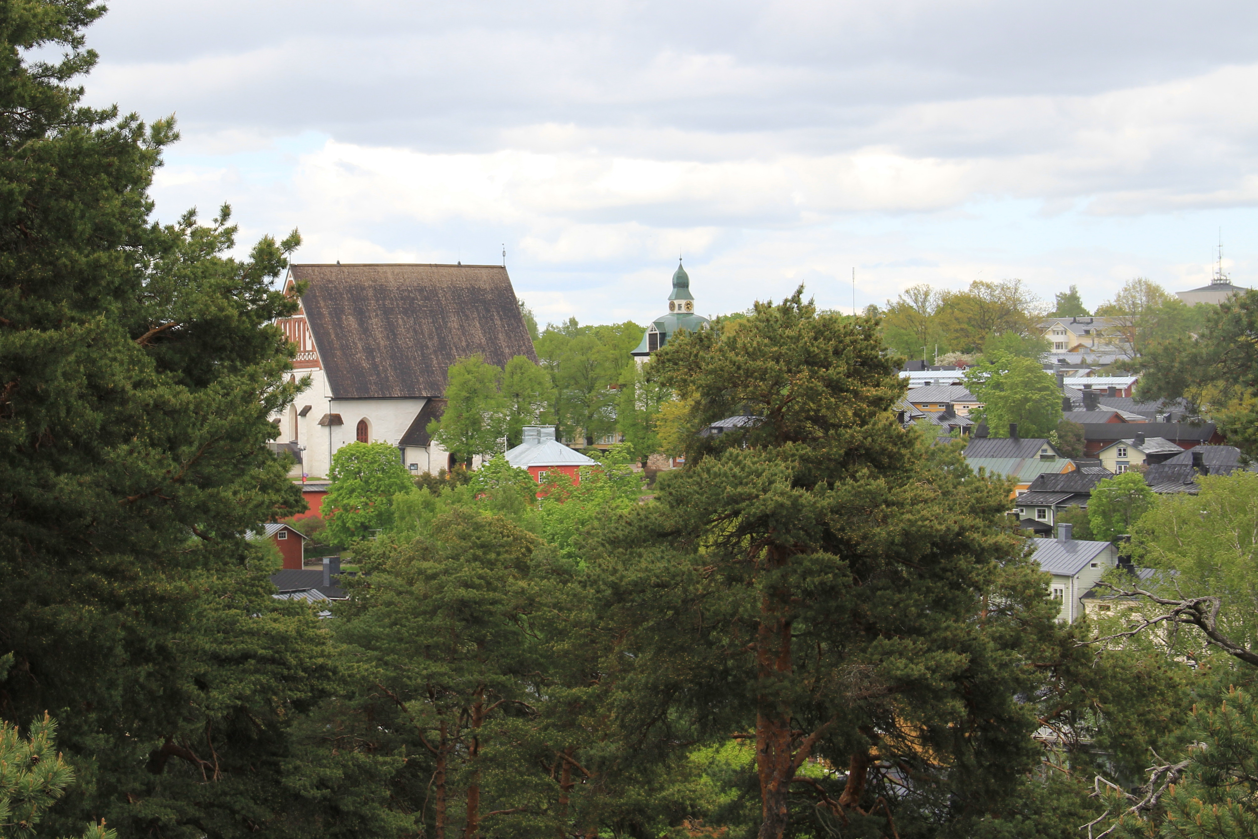 City of Porvoo, Finland, seen from Näsi glacial erratic. - Left: Porvoo Cathedral. Center: Porvoo Cathedral bell tower. Right: Porvoo Myllymäki water tower.